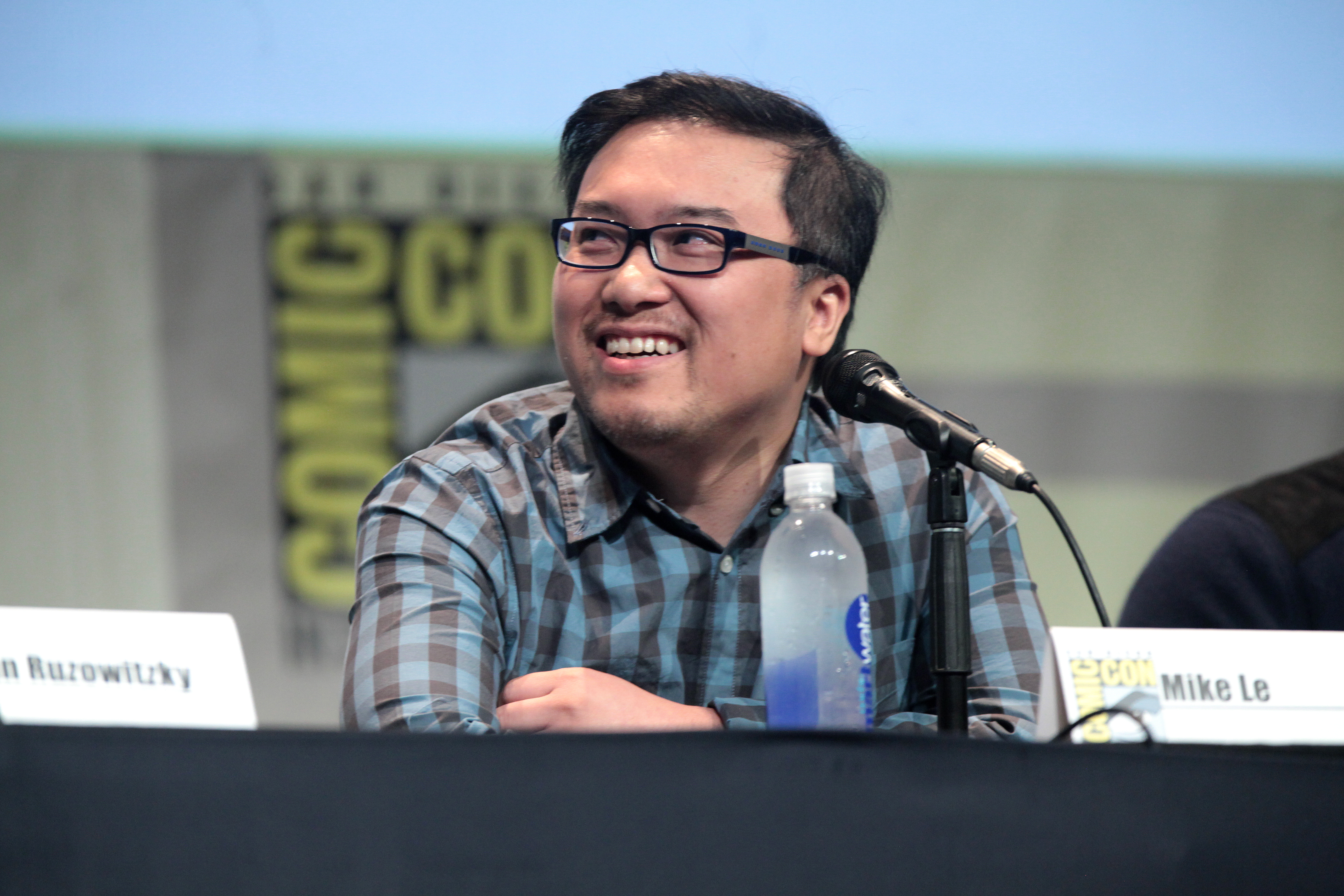 Mike Le speaking at the 2015 San Diego Comic Con International, for "Patient Zero", at the San Diego Convention Center in San Diego, California.